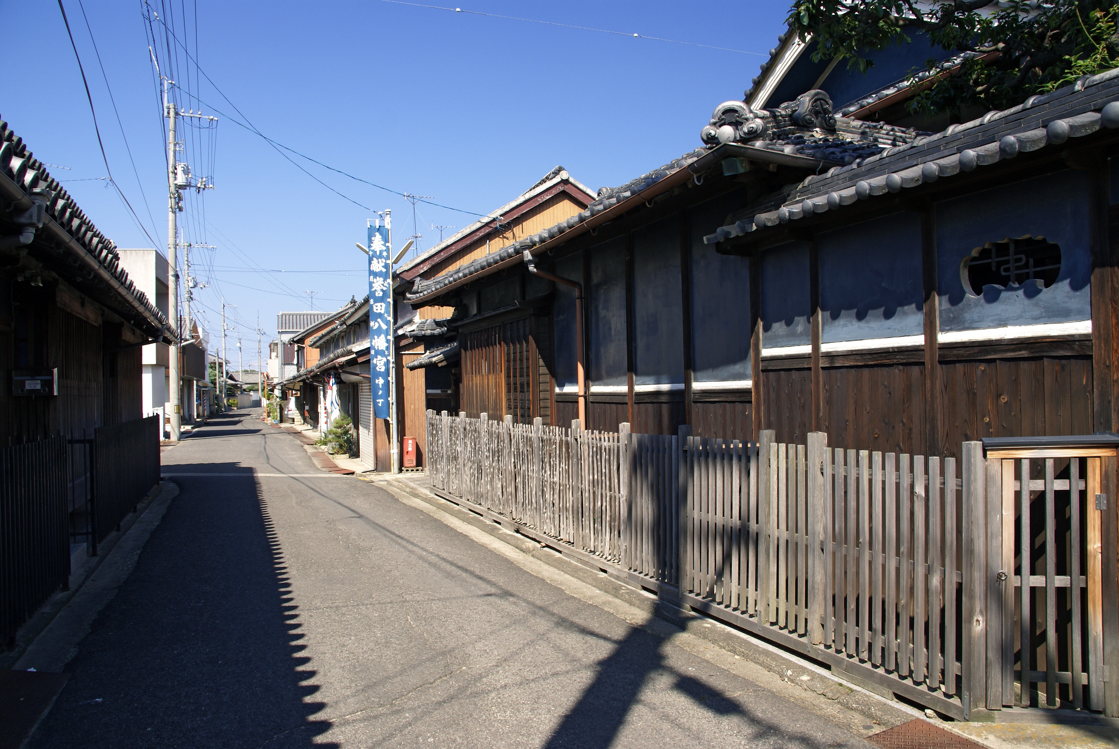 Street of Hiketa, Higashikagawa, Kagawa prefecture, Japan